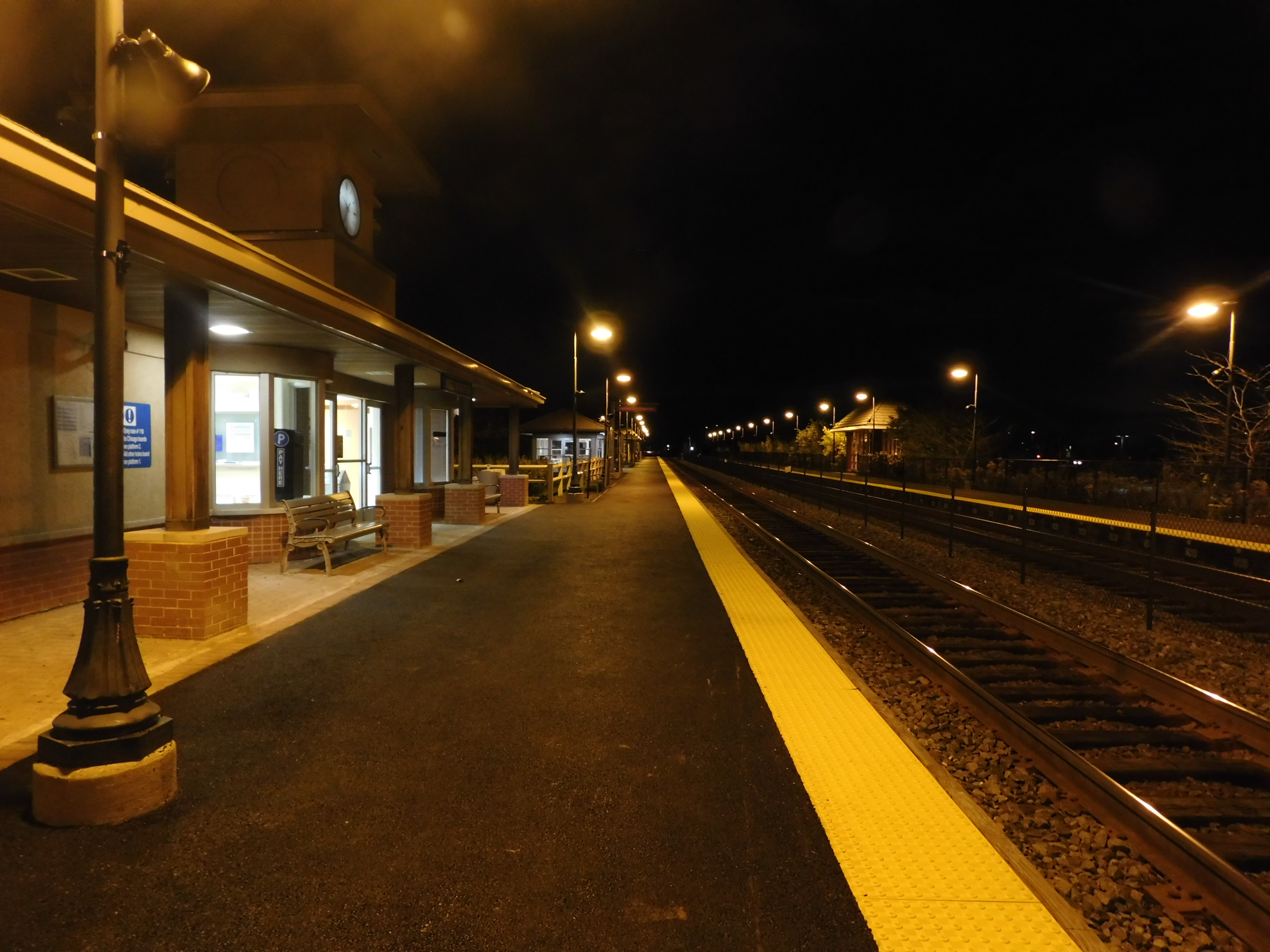 Buffalo Grove station for the Metra North Central Service in November 2016.